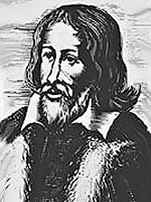 Swedish Riksföreståndare Svante Nilsson Sture